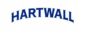 Hartwall logo